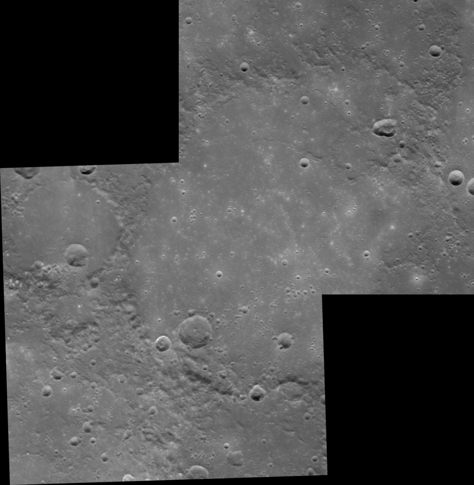 Dali crater on Mercury. Mosaic of two MESSENGER Wide Angle Camera images. North is in upper right. The lower left image was enlarged slightly and rotated to match the other one. Statistics for the upper right image are: Emission Angle: 0.2 Incidence Angle: 51.7 Latitude: 26.5 Longitude: 119.7 Phase Angle: 51.8